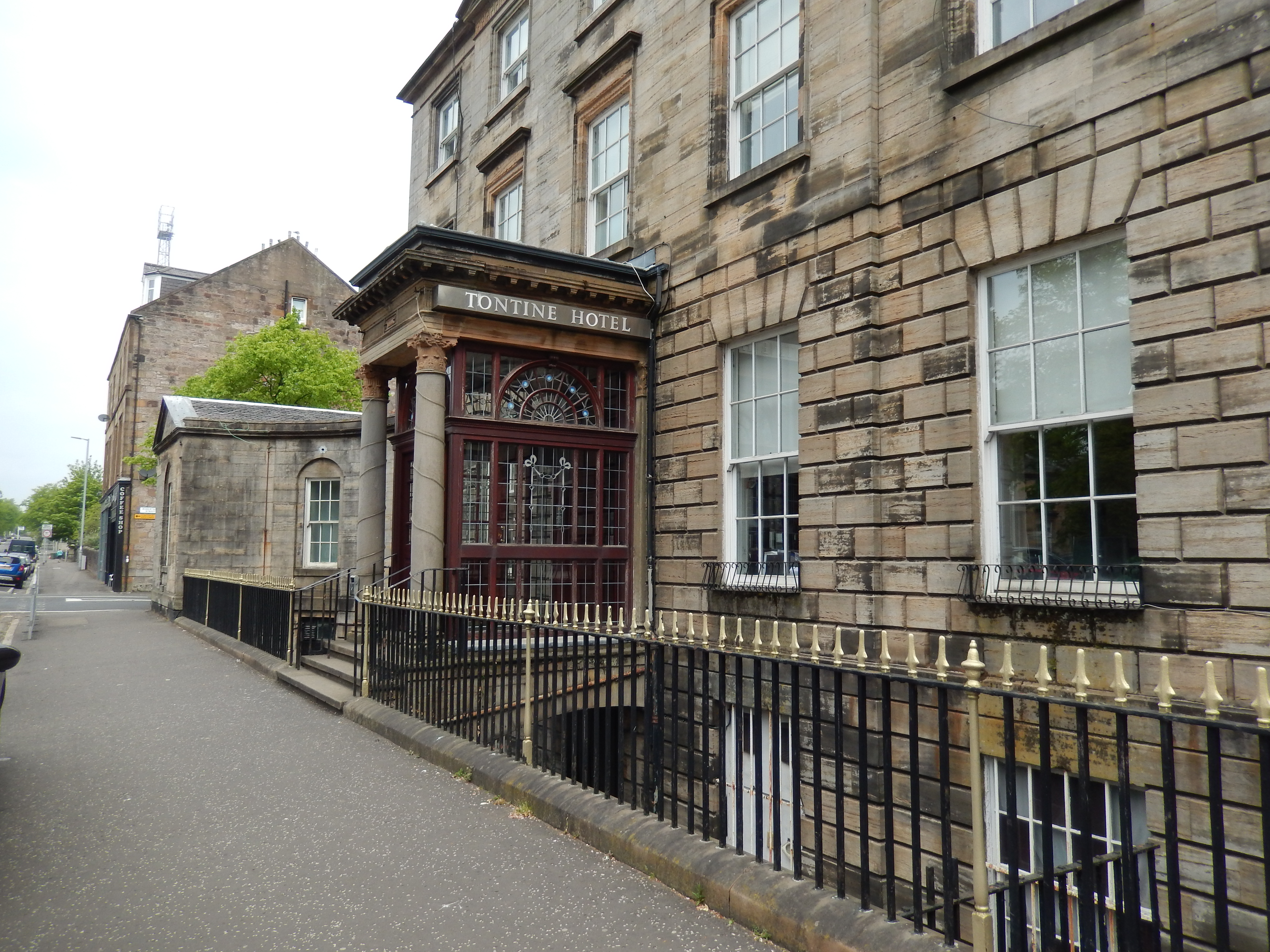 Tontine Hotel, Greenock